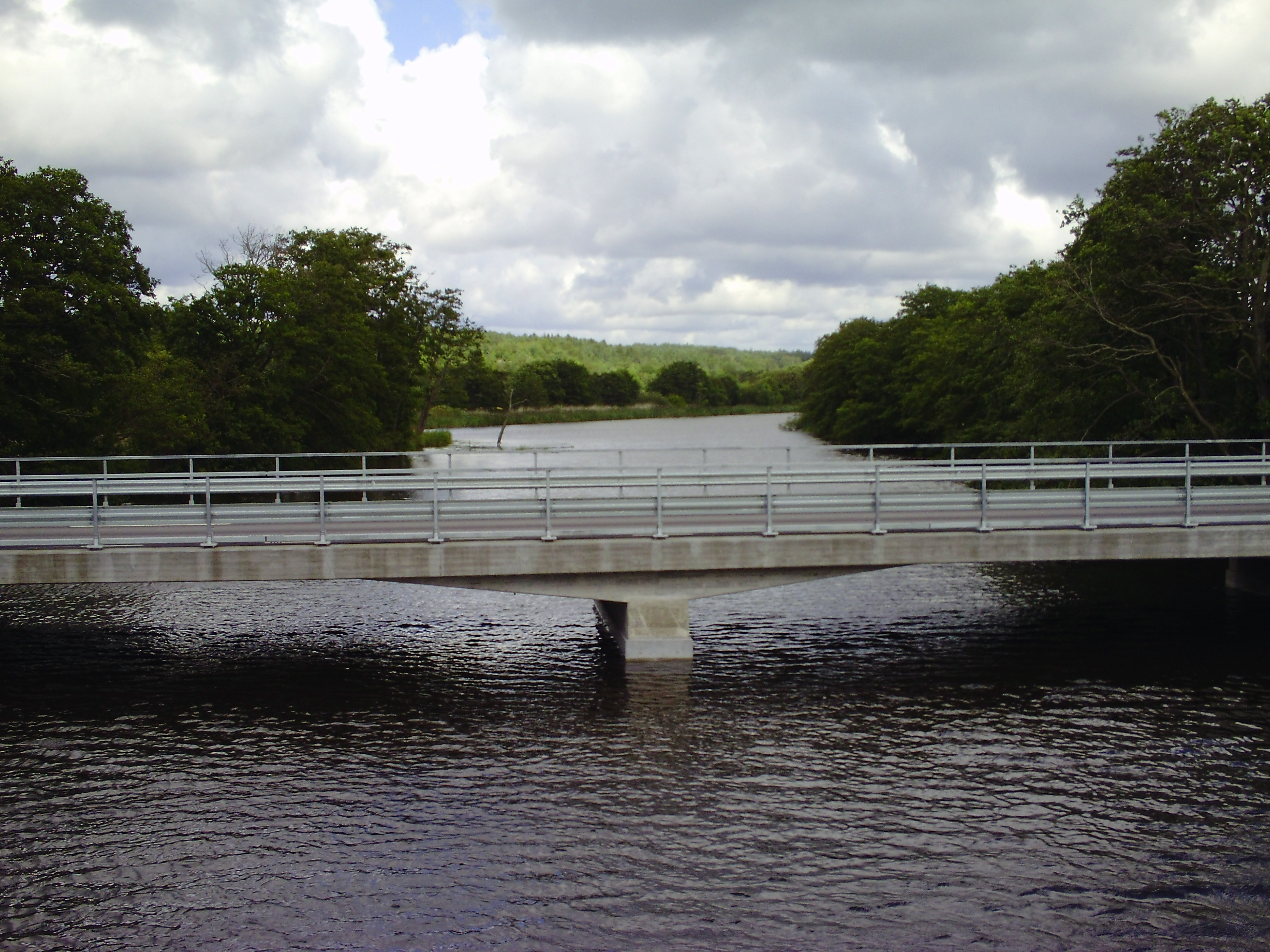 The river Viskan in Åskloster, Halland, Sweden.